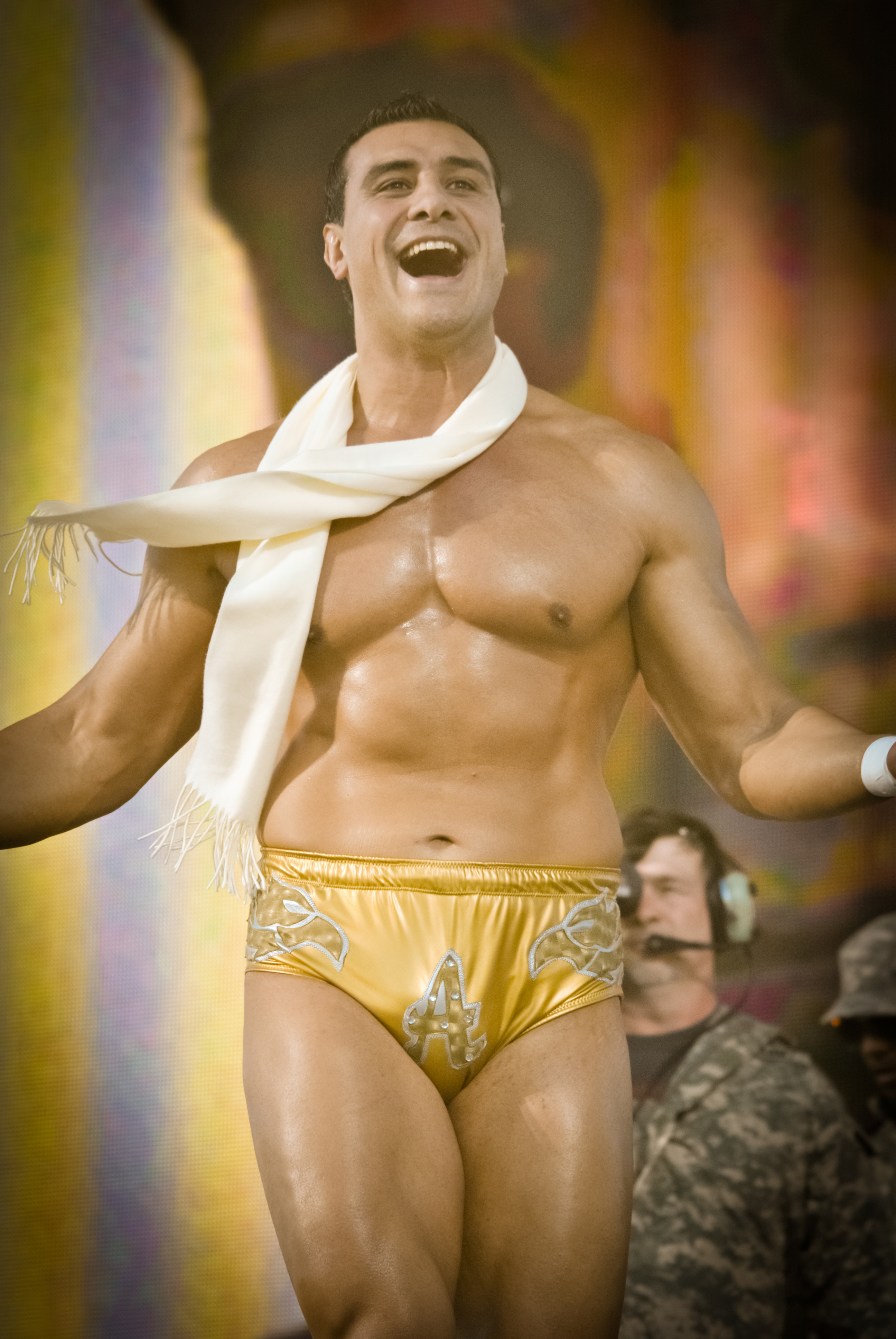 Alberto Del Rio at WWE's 2010 Tribute to the Troops show in Fort Hood, Texas on December 11, 2010.